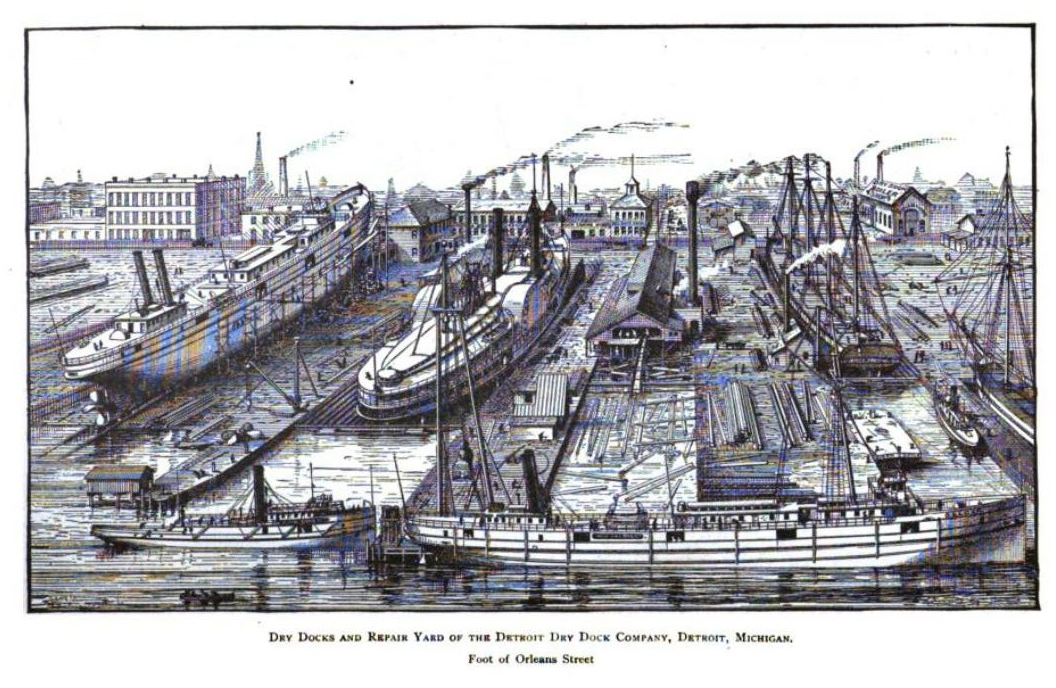 Detroit Dry Dock Company. The shipyard of the Detroit Dry Dock Company with a collection of ships in the yard including the propeller W. A. HASKELL, a sidewheeler CITY OF DETROIT I, a four masted schooner W. ADAMS (G. W. ADAMS?), and the barge JOHN DOYLE. Along the waterfront is the tug JOHN OWEN, the propeller W. J. AVERILL.